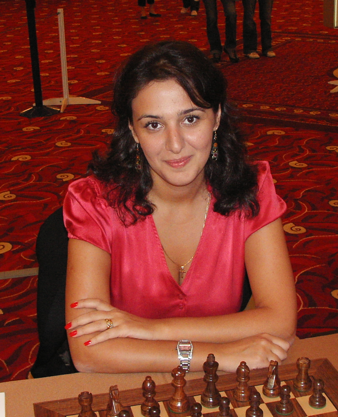 WGM Maia Lomineishvili (Georgia), Heraklion 2007